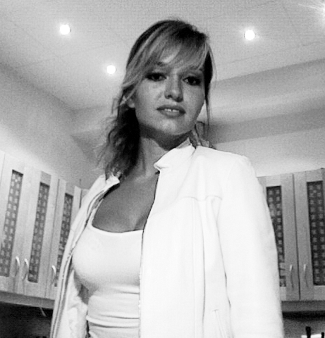 Barbara Baska